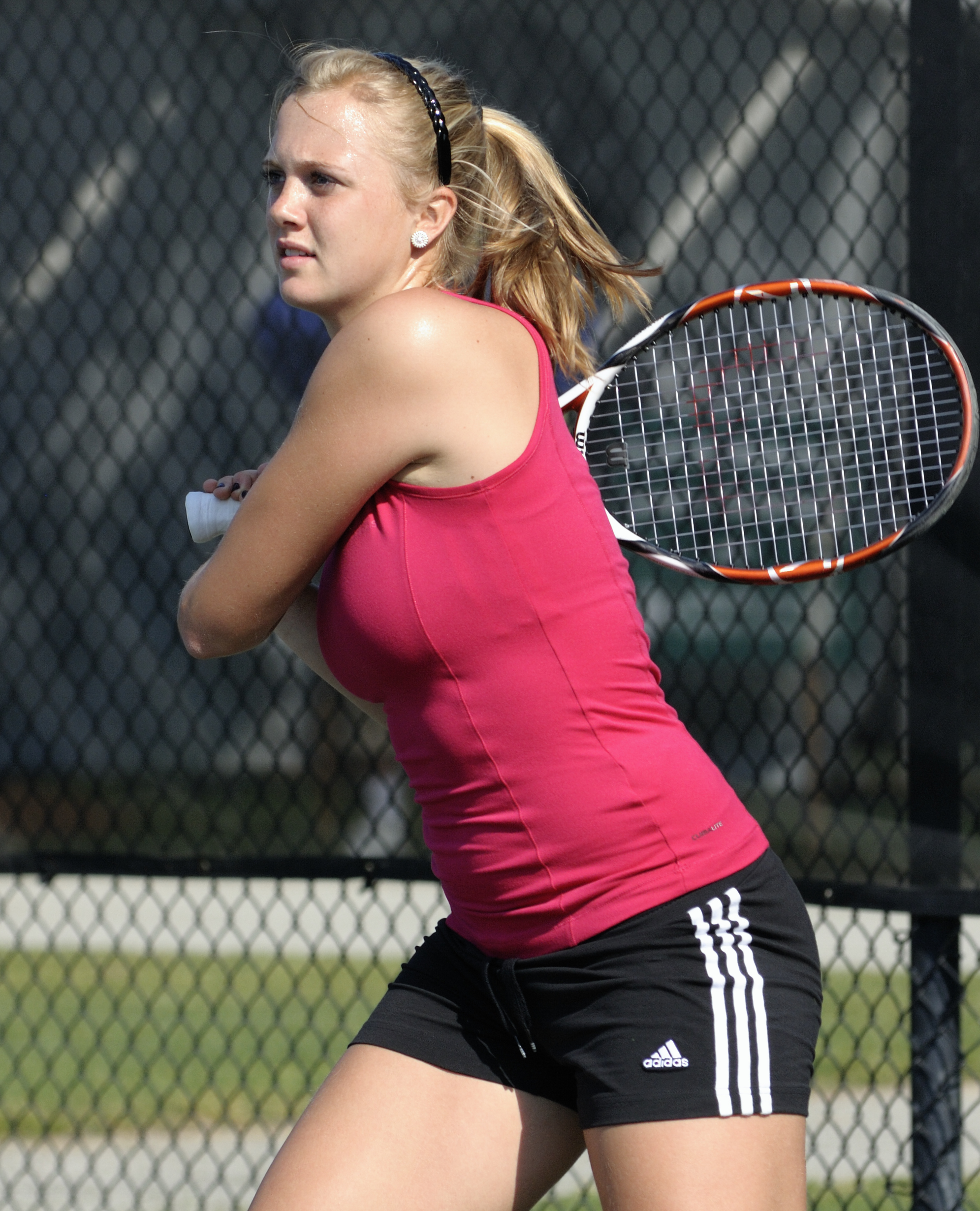 At the 2010 Family Circle Cup.